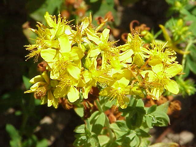 Species: Hypericum tetrapterum Family: Hypericaceae Image No. 1